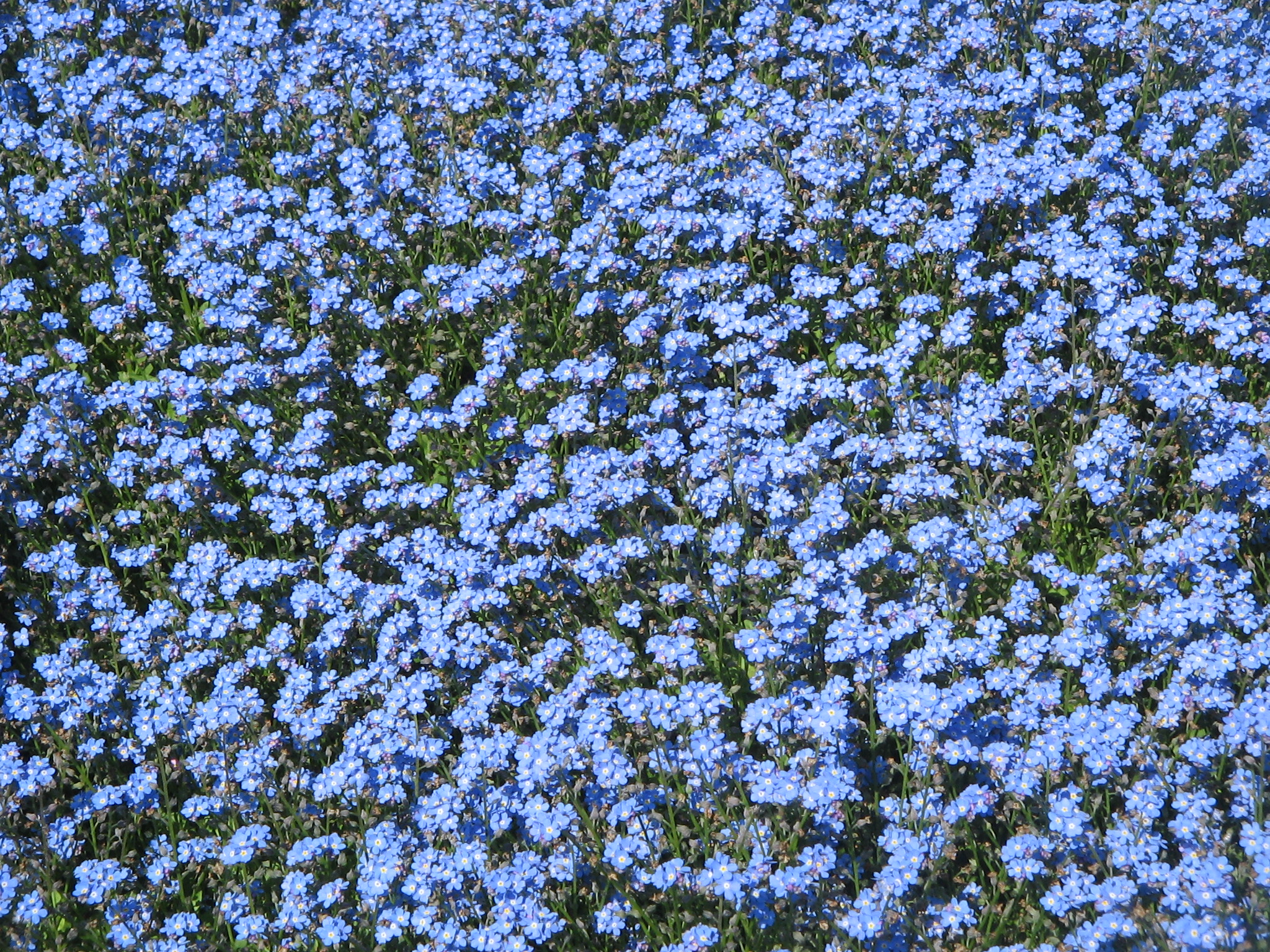 Myosotis sylvatica clump